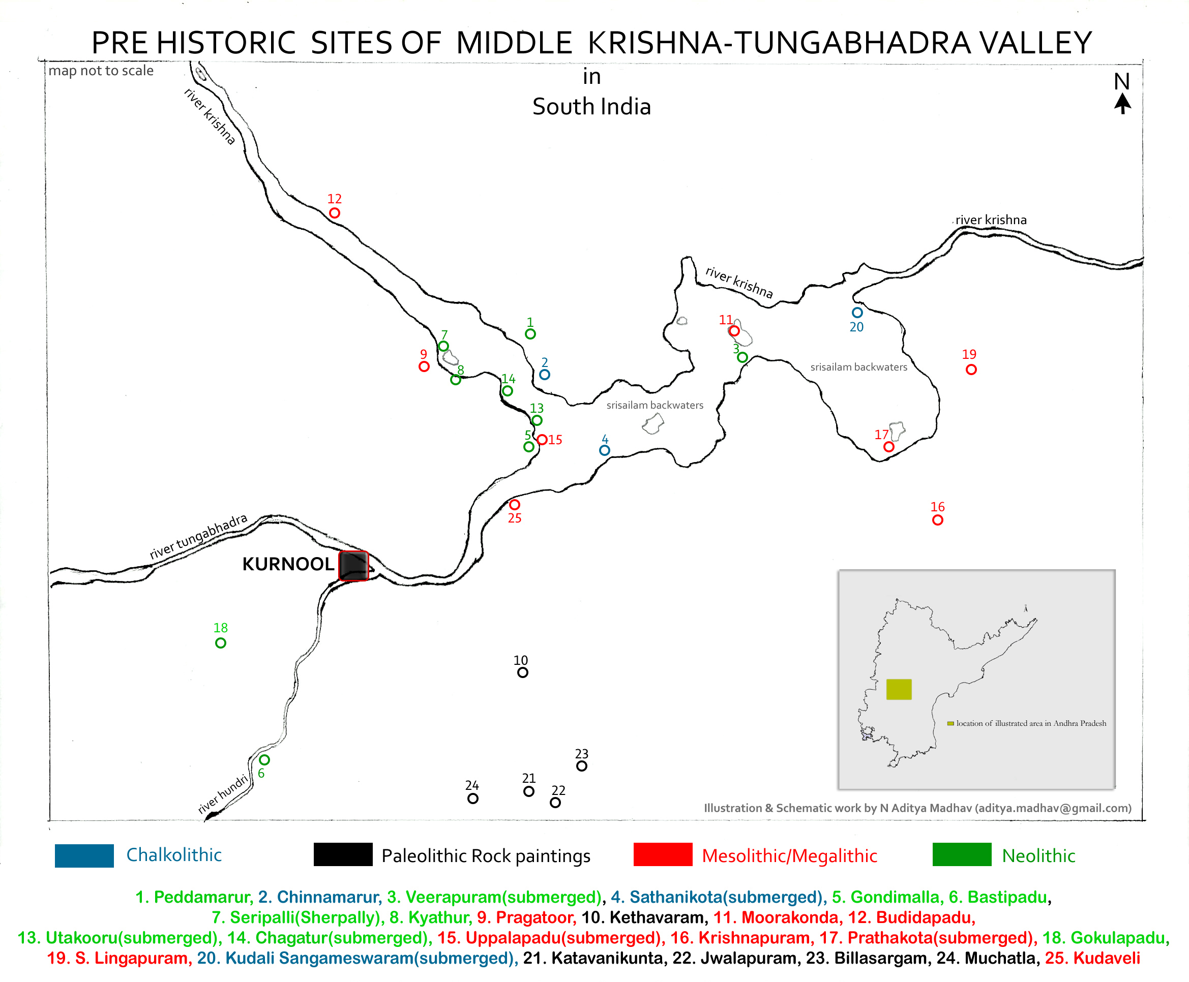 Pre Historic Mid Krishna-Tungabhadra Valley sites are: 1. Peddamarur, 2. Chinnamarur, 3. Veerapuram(submerged), 4. Sathanikota(submerged), 5. Gondimalla, 6. Bastipadu, 7. Seripalli(Sherpally), 8. Kyathur, 9. Pragatoor, 10. Kethavaram, 11. Moorakonda, 12. Budidapadu, 13. Utakooru(submerged), 14. Chagatur(submerged), 15. Uppalapadu(submerged), 16. Krishnapuram, 17. Prathakota(submerged), 18. Gokulapadu, 19. S. Lingapuram, 20. Kudali Sangameswaram(submerged), 21. Katavanikunta, 22. Jwalapuram, 23. Billasargam, 24. Muchatla, 25. Kudaveli Note: The map is created for information and educational purposes. People using the map outside Wikipedia projects are requested to attribute it properly.